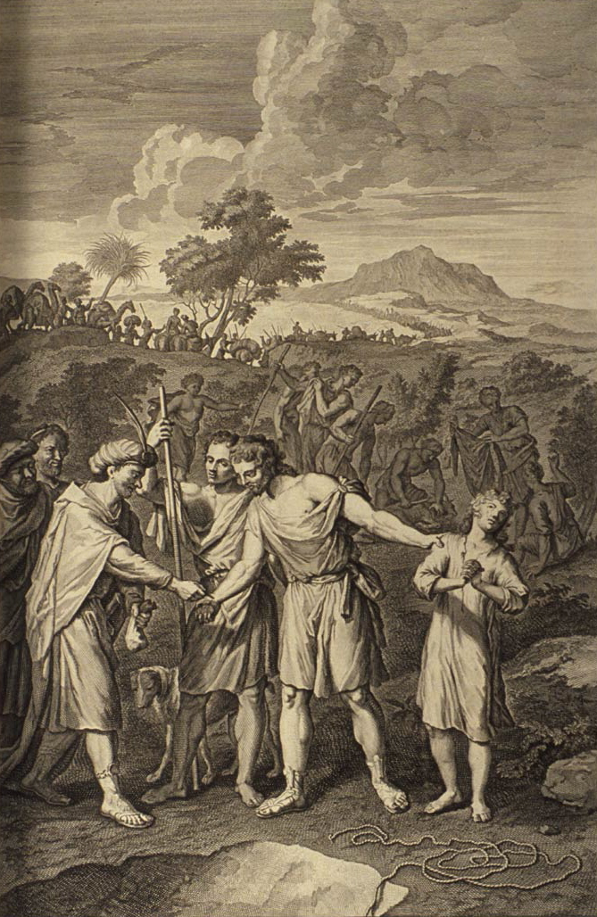 Joseph sold by his brethren to the Ishmaelites, as in Genesis 37:28: "Then there passed by Midianites merchantmen; and they drew and lifted up Joseph out of the pit, and sold Joseph to the Ishmeelites for twenty pieces of silver; and they brought Joseph to Egypt."; illustration from the 1728 Figures de la Bible; illustrated by Gerard Hoet (1648-1733) and others, and published by P. de Hondt in The Hague; image courtesy Bizzell Bible Collection, University of Oklahoma Libraries